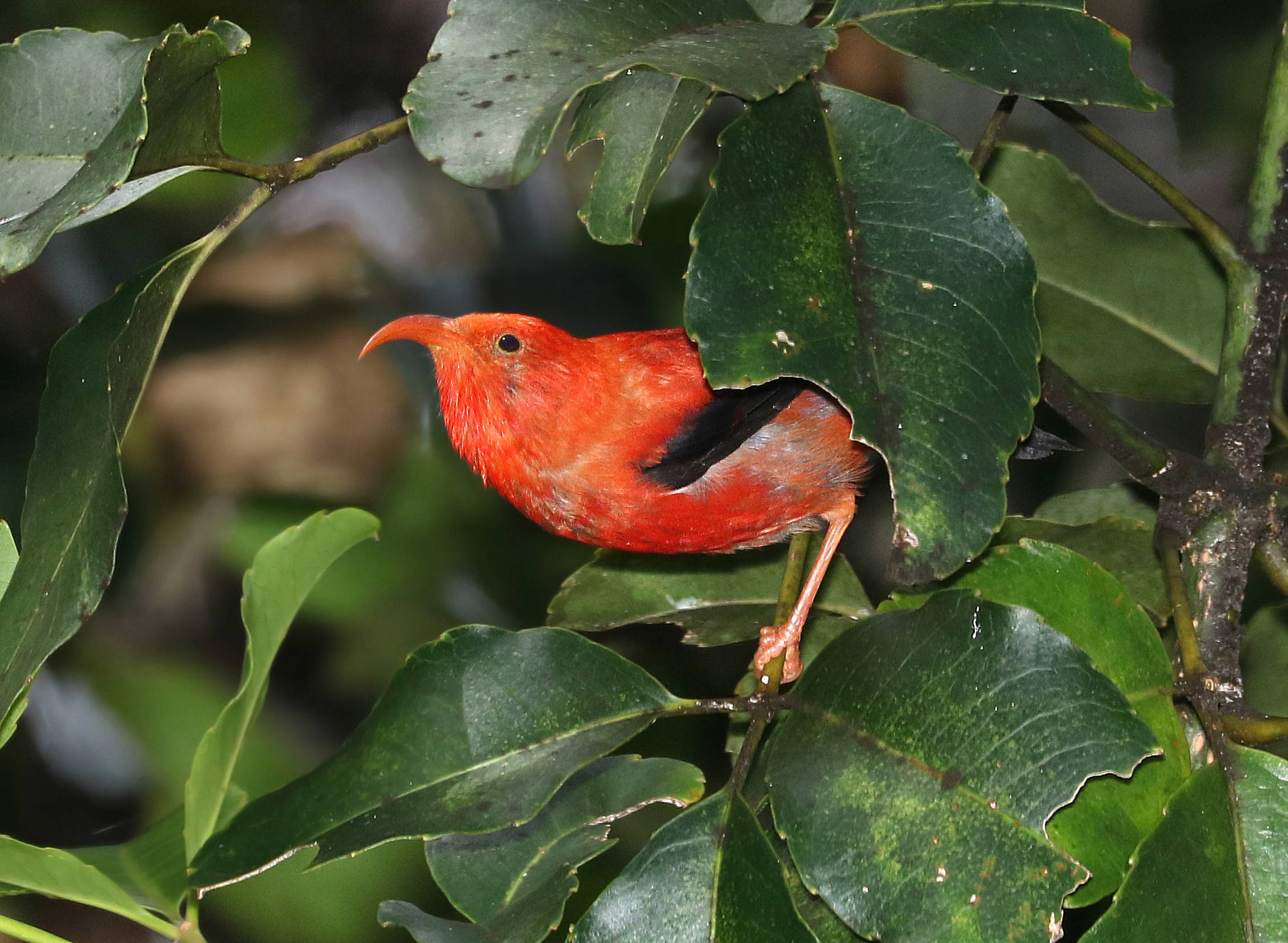 'I'iwi in Hakalau Forest National Wildlife Refuge, Hawaii. The ‘i‘iwi's long, down curved, orange bill is specialized for sipping nectar from tubular flowers.